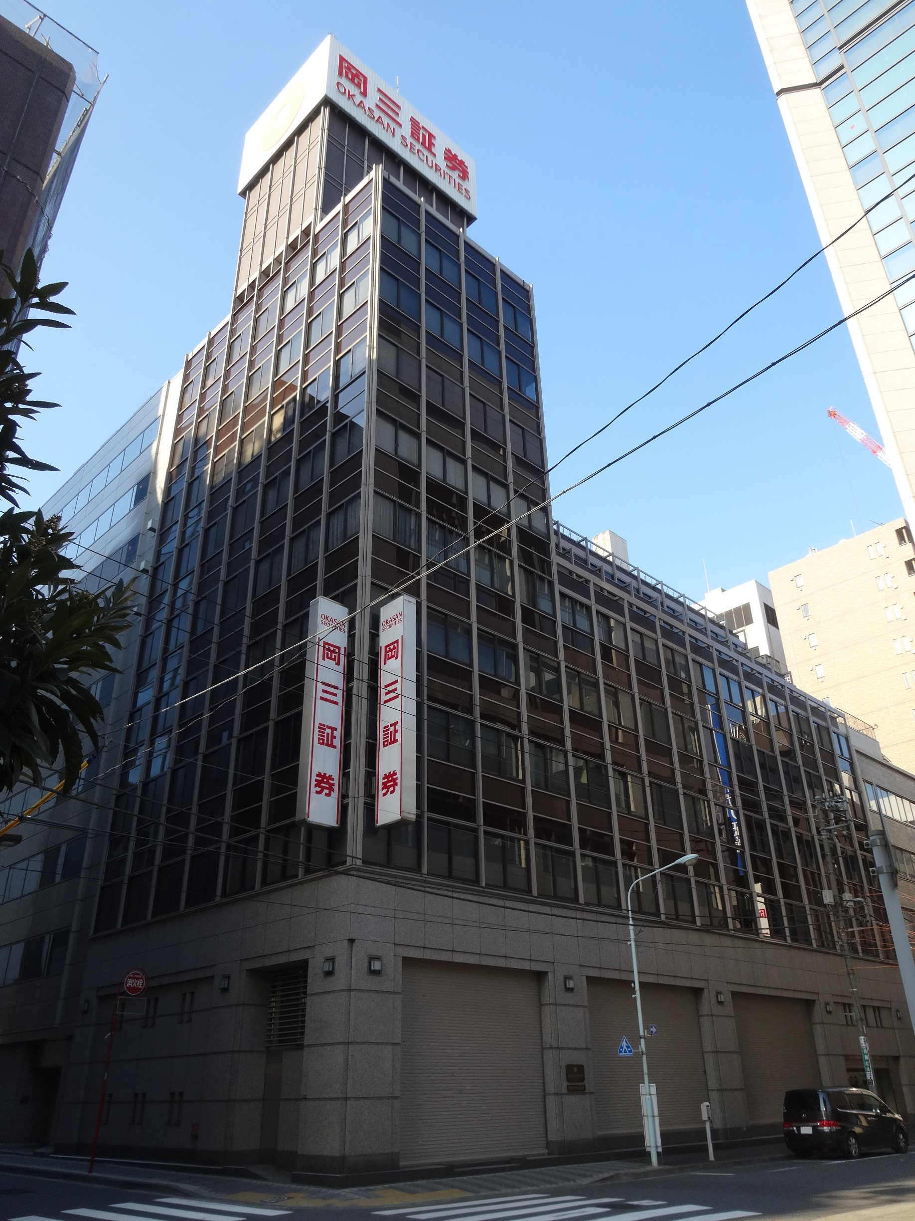 Okasan Securities the central branch(Chuo-ku,Tokyo,Japan)